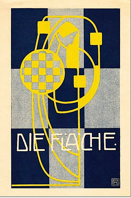 One of the color plates designed by Myrbach for Die Fläche vol. 01, printed in Vienna (Austria), for the Wiener Werkstätte.